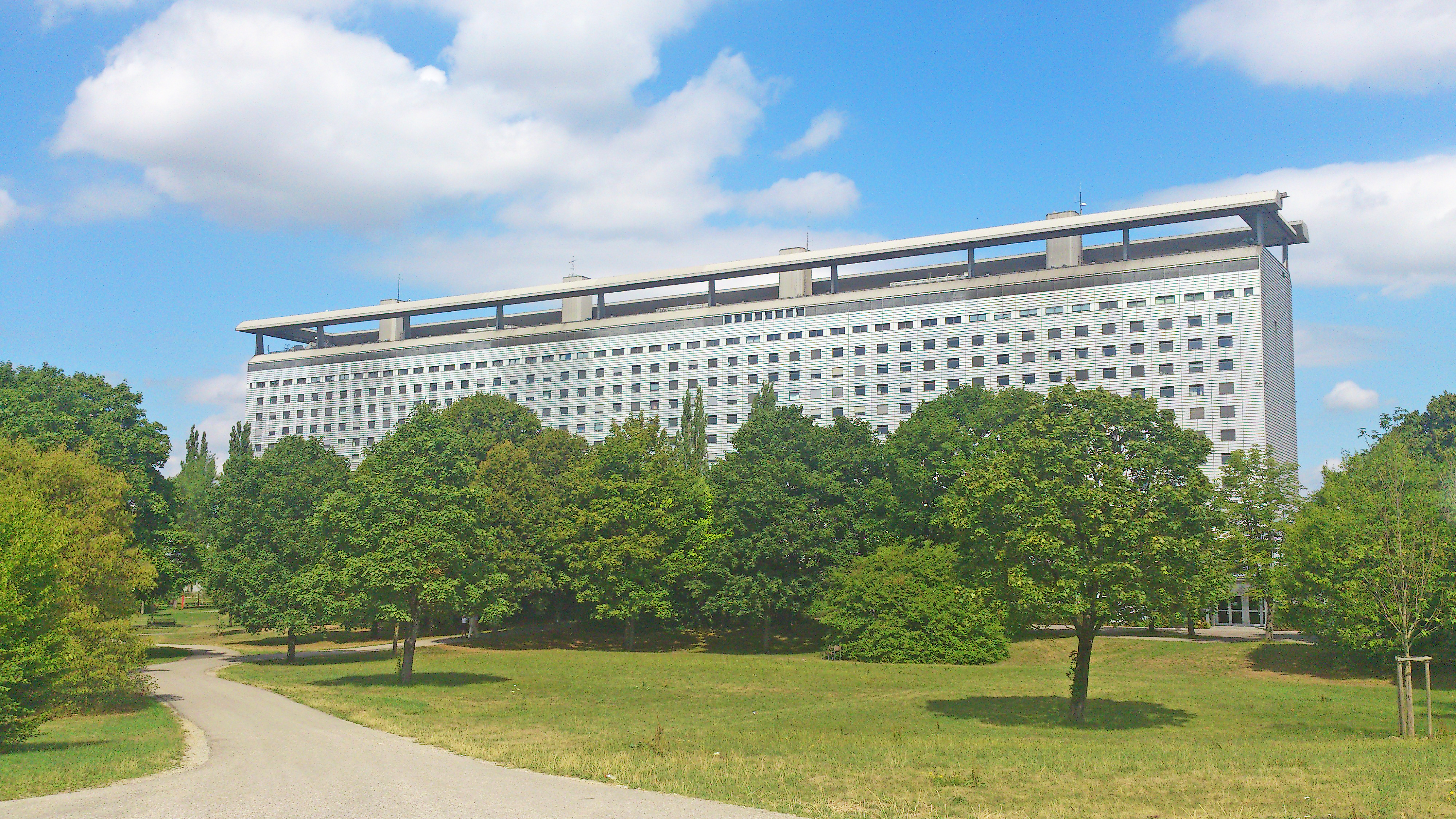 Hospital of Grosshadern (LMU) in Munich (built in 1974)